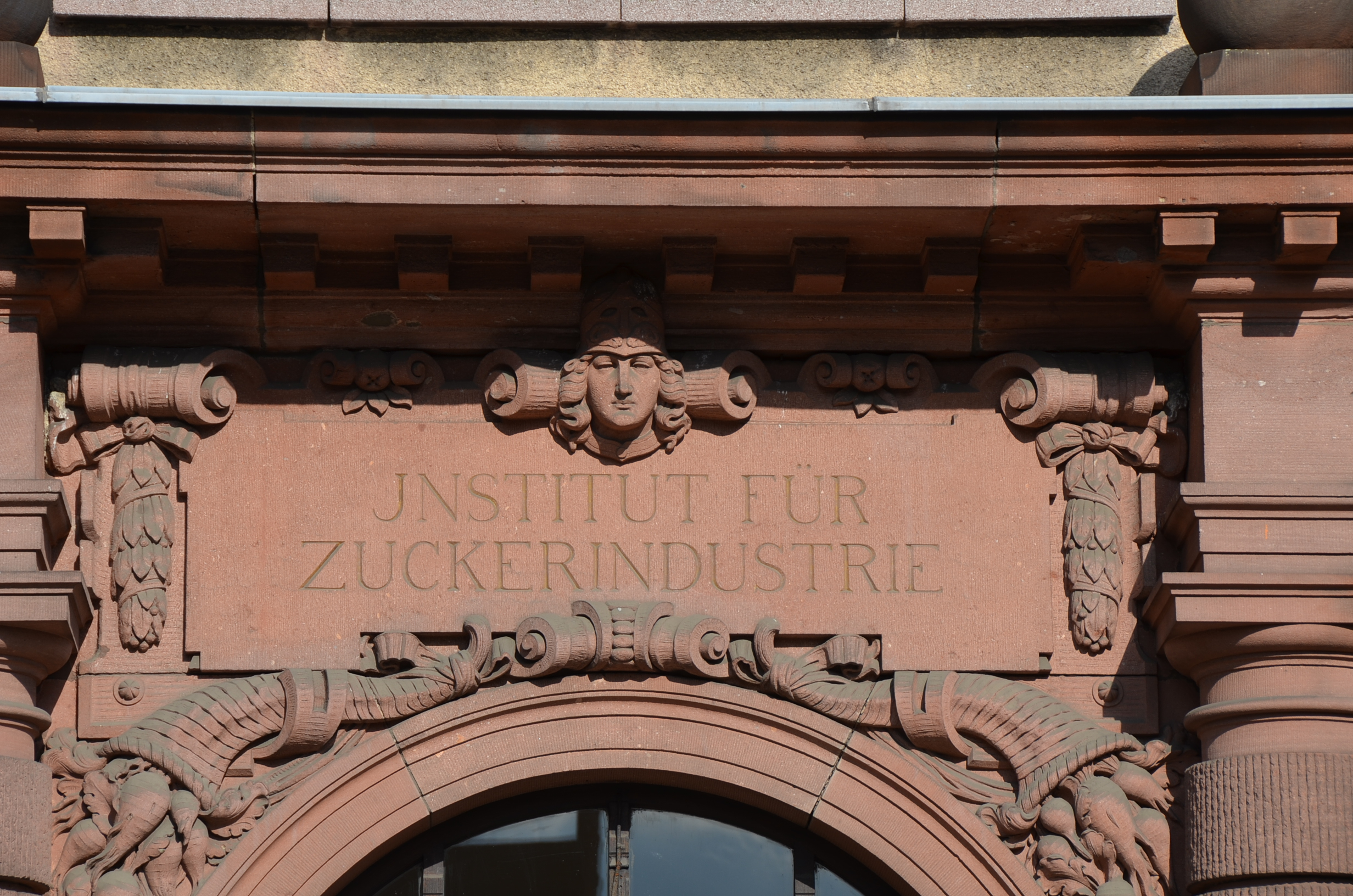 TUB-Forschungsbrauerei, Institut für Zuckerindustrie